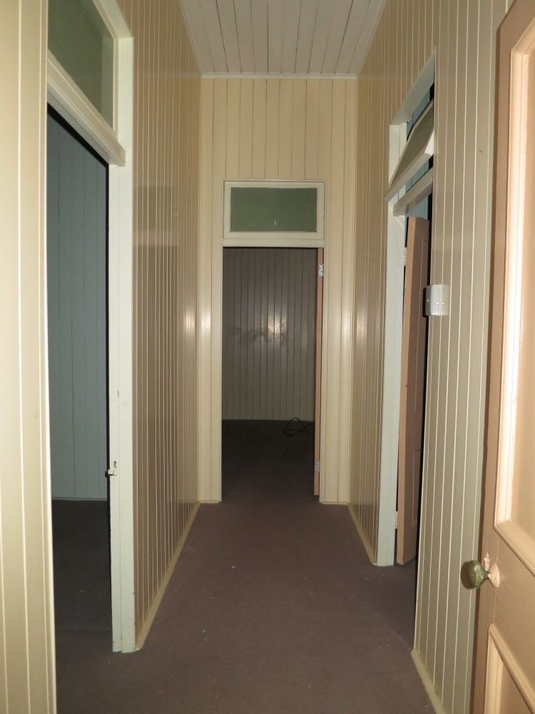 School Residence interior hallway, with early timber joinery and linings (2015)